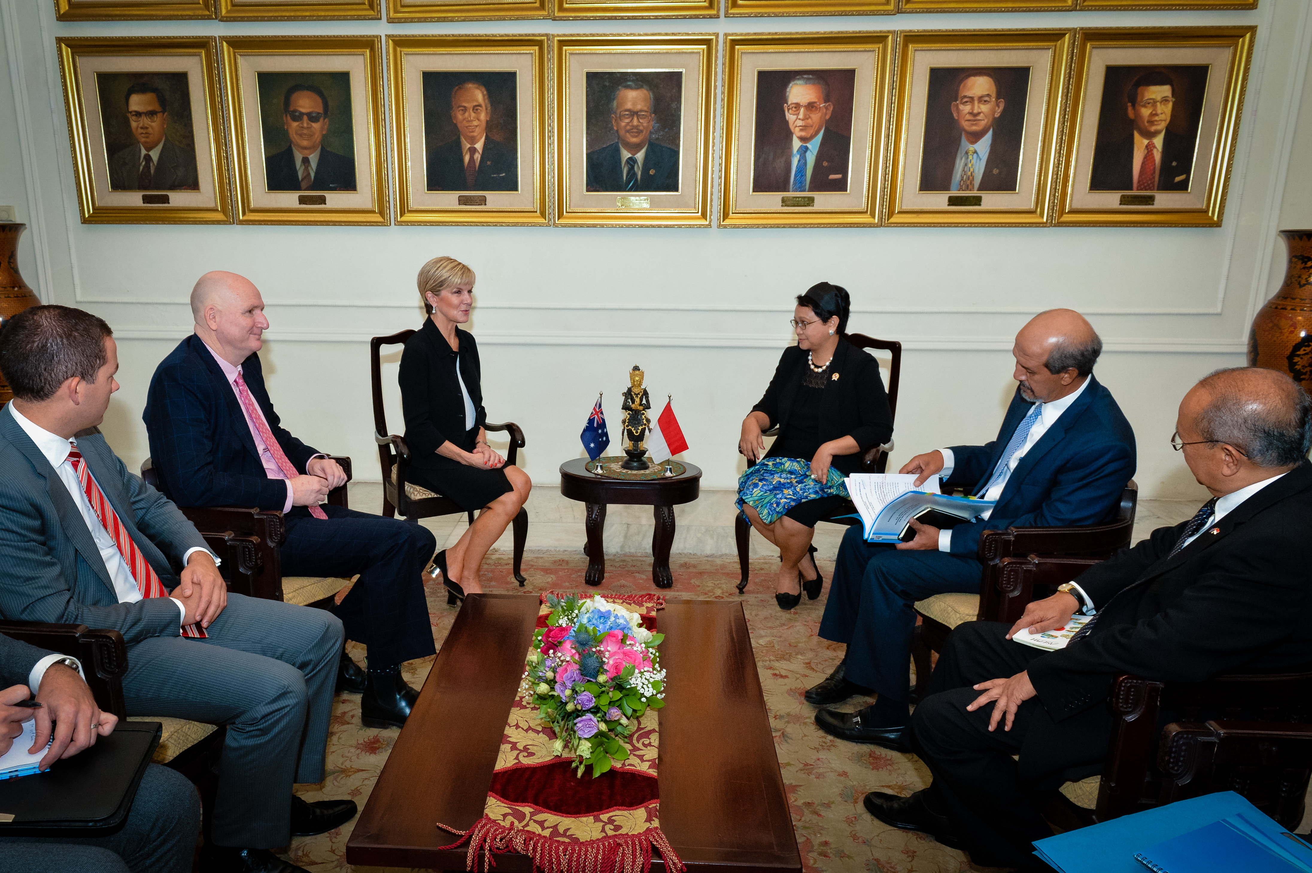 Foreign Minister Julie Bishop met with Indonesian Foreign Minister Ms Retno Marsudi at Kementerian Luar Negeri.